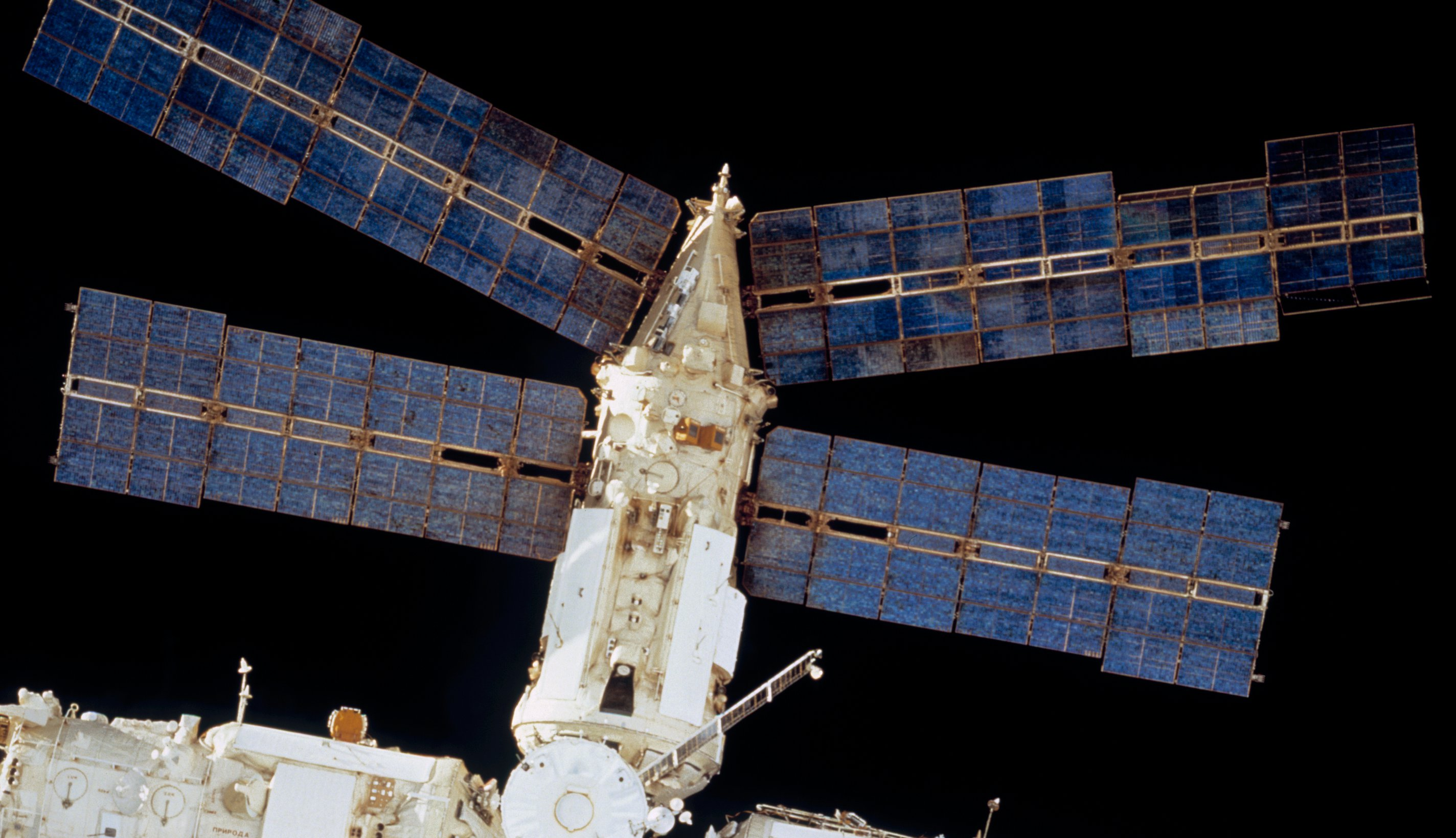 A survey view of the Spektr module of the Russian space station Mir, showing the module's solar arrays prior to the collision with Progress M-34.